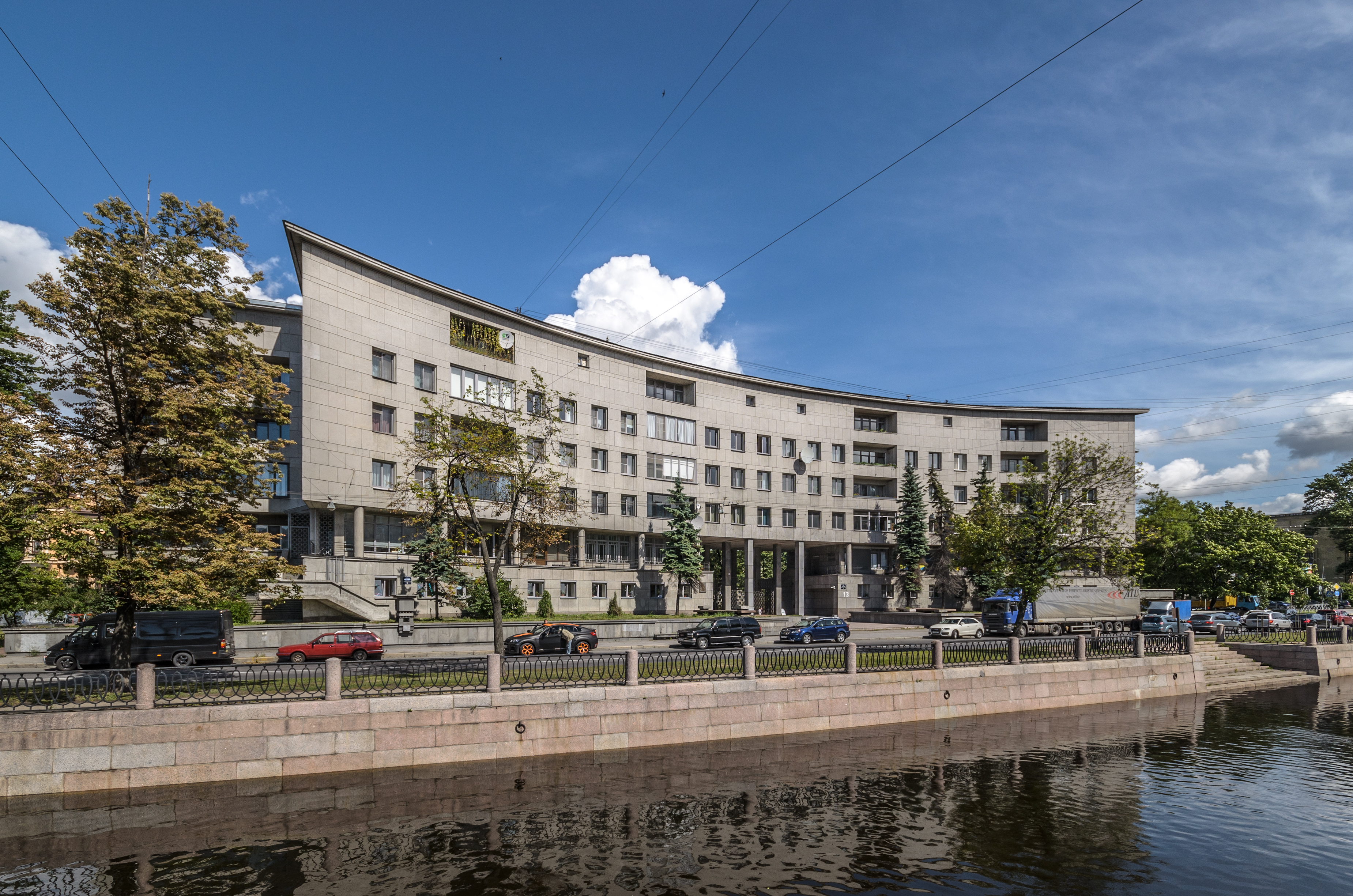 Karpovka River Embankment in Saint Petersburg. First Apartment House of Lensovet